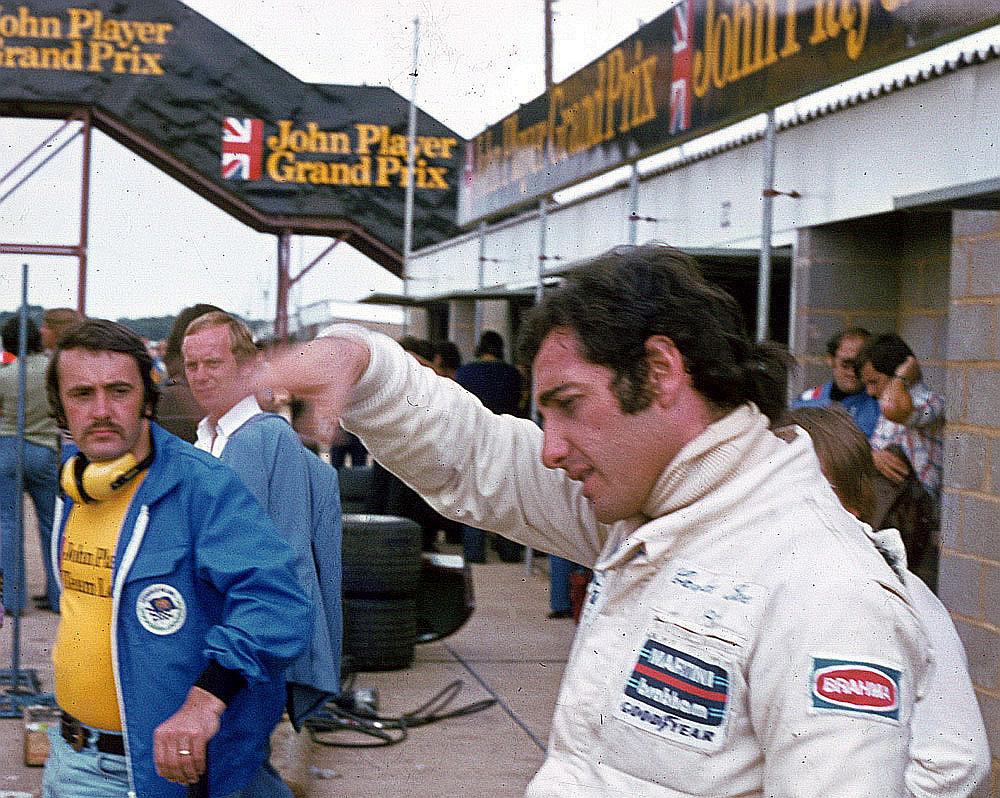 Carlos Pace in 1975 at pitlane John Player Grand Prix, Silverstone.